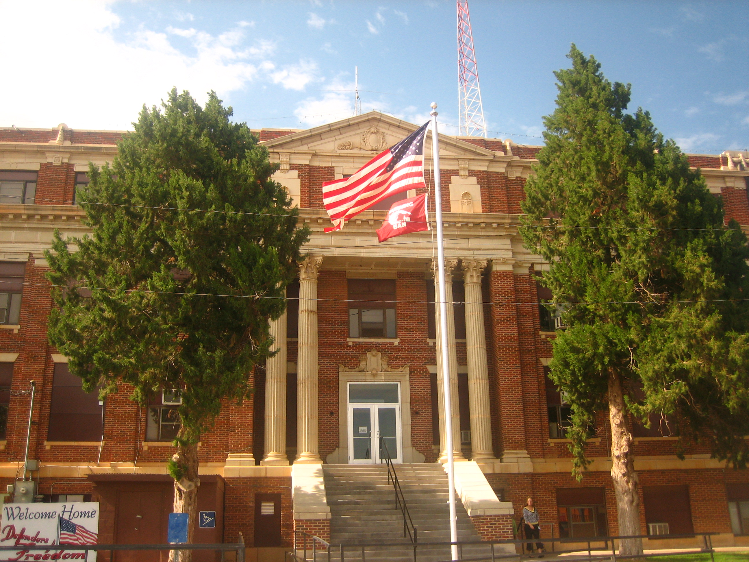 South face of the Hall County Courthouse in Memphis, Texas, United States.